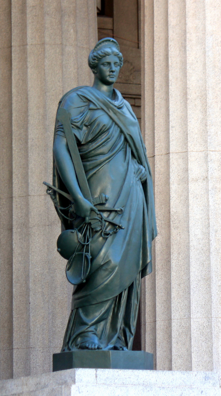 Statue of Themis, in the Court of appeals of Valparaiso, Chile.